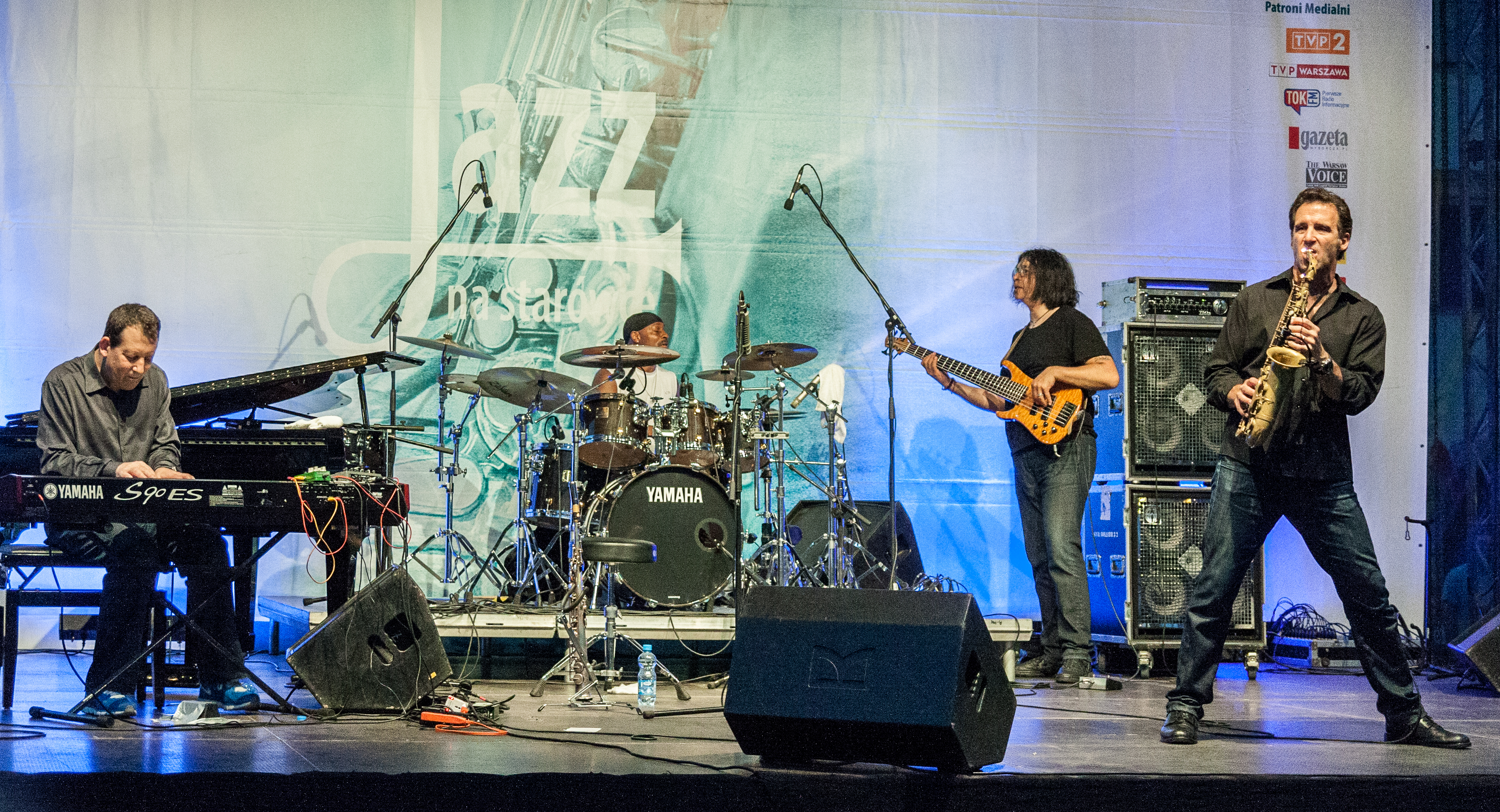 Jeff Lorber feat. Eric Marienthal - Jazz na Starówce festival 2012-08-04, Warsaw, Poland